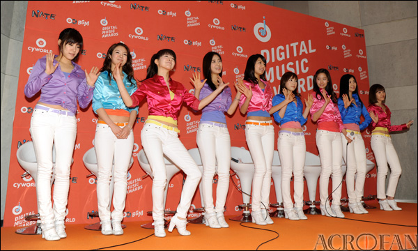 SNSD at Cyworld 31th Digital Music Awards